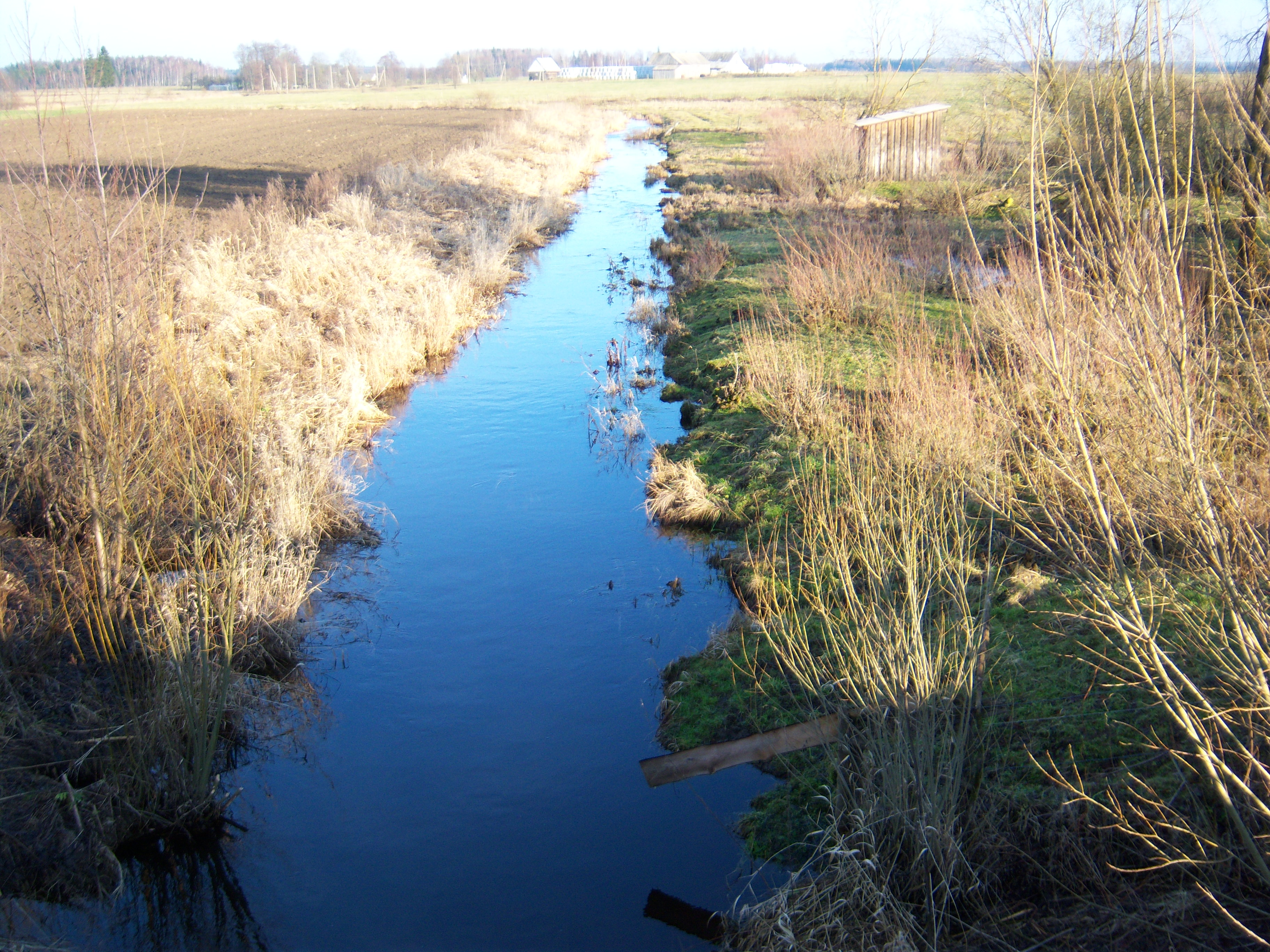 Luknė River by Pasandravys, Raseiniai District, Lithuania